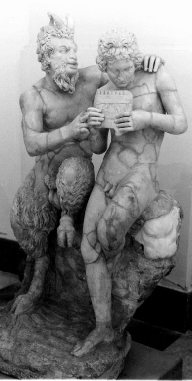 Pan teaching his eromenos Daphnis to play the panpipes. Marble, Roman copy after a Greek original from the 3rd-2nd centuries BCE by Heliodoros. Collezione Farnese, Naples Archeological Museum (Inv. 6329). H. 1.58 m (5 ft. 2 in.).